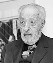 Jürgen Kuczynski while an lecture to his book "Fortgesetzter Dialog mit meinem Urenkel" on January 10, 1997 in Berlin